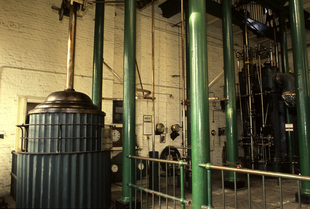 The engine floor, Boulton & Watt beam engine, Kew Bridge One of the five Cornish cycle steam engines (4 beam and one Bull) preserved at Kew Bridge. The pump cylinder is prominent on the left, the valve gear and piston is on the right. The beam is 'on the floor above'. For more information on Kew Bridge Steam Museum, see Link